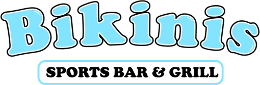 Bikinis Sports Bar and Grill logo